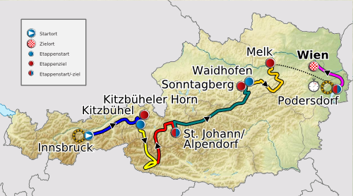 Route of the Tour of Austria 2012